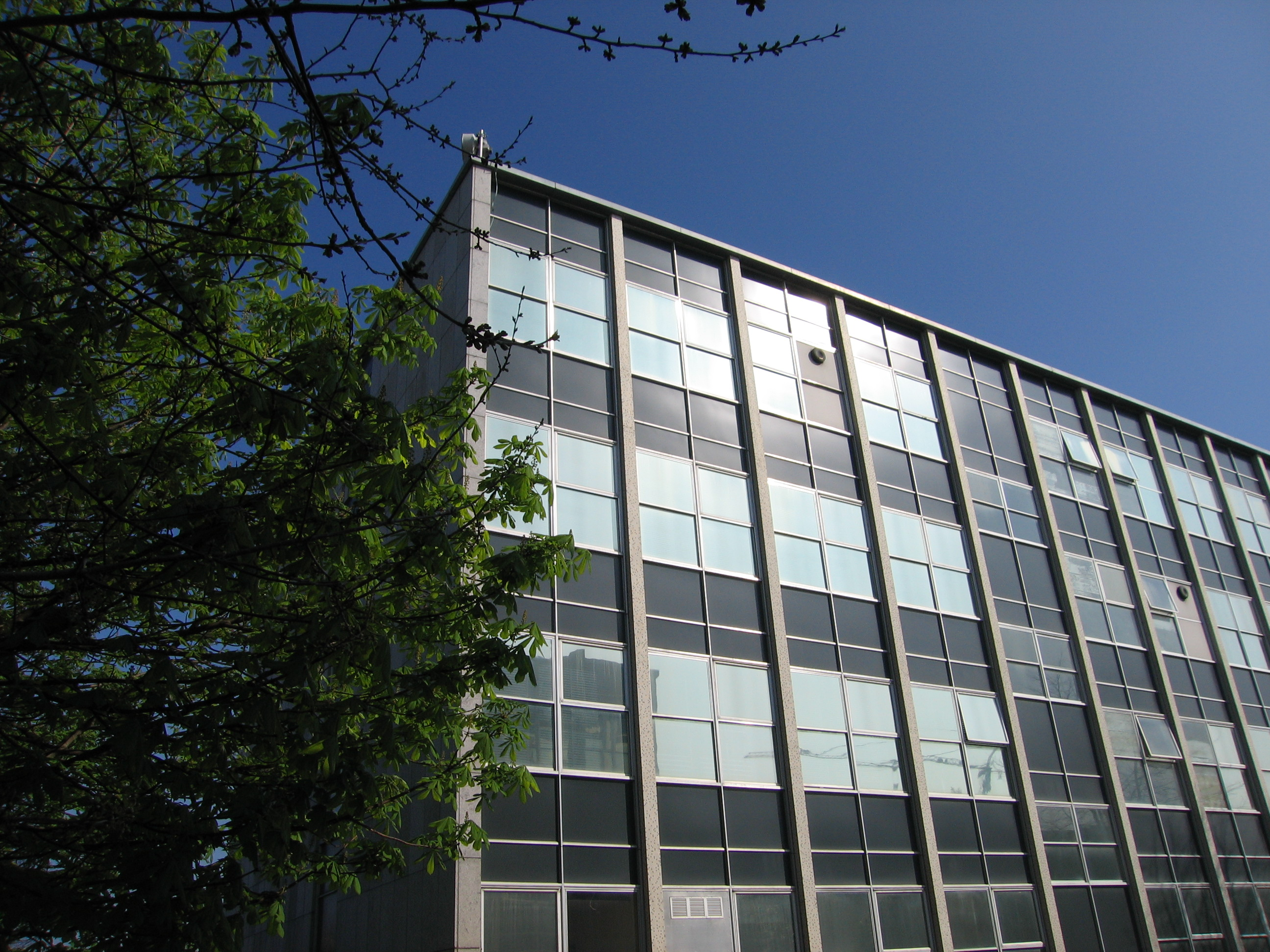 The Science Block in Belfield; the first of the new buildings (1964) at the Belfield campus.